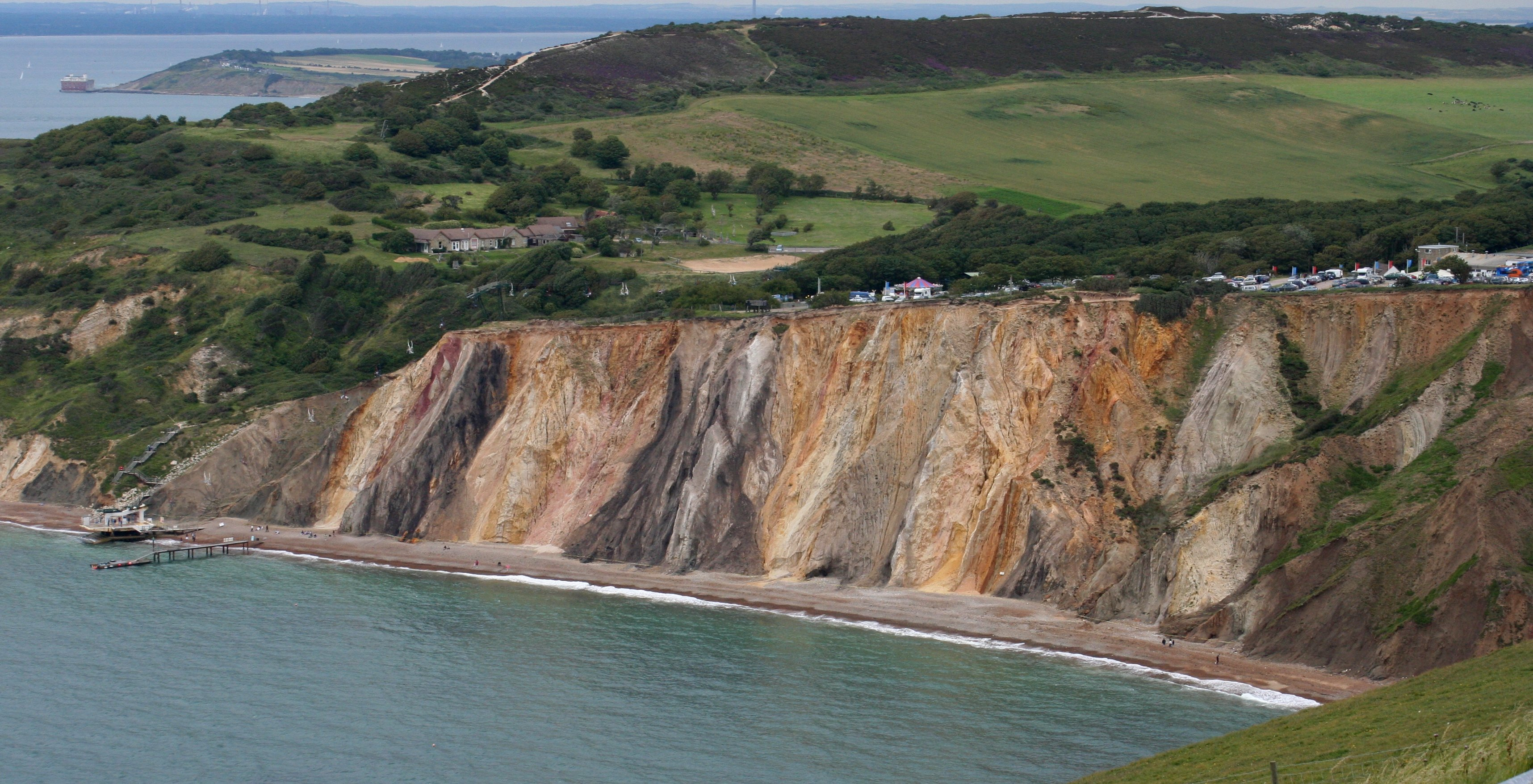 The multi-colored sand cliffs of Alum Bay.